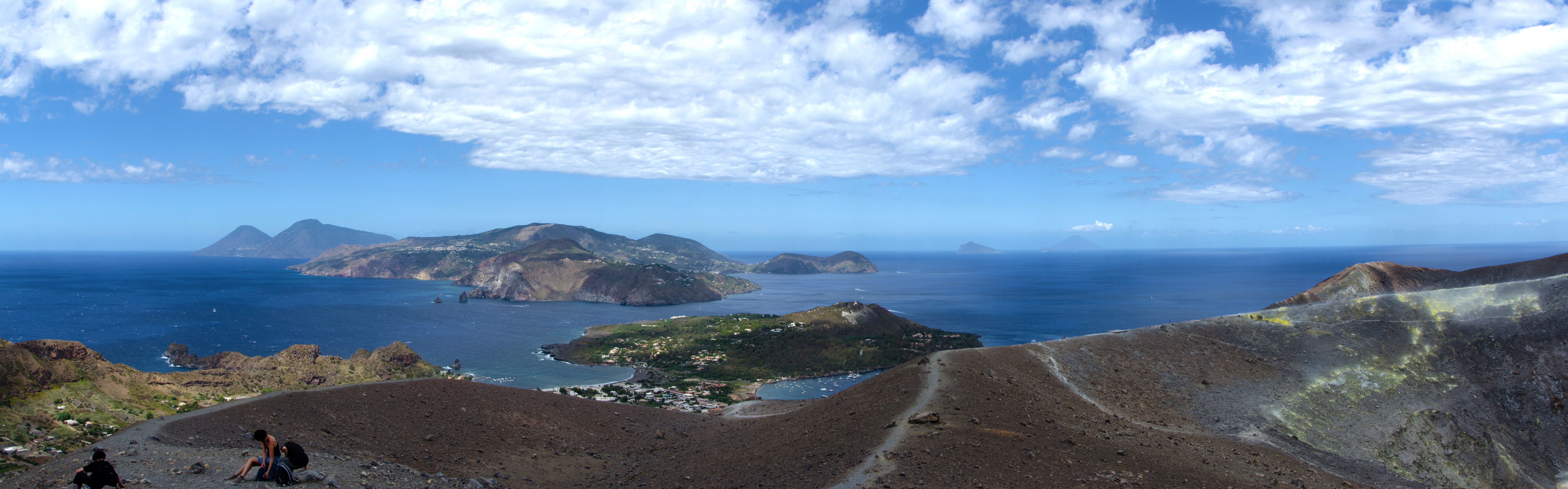 View from Vulcano, Aeolian Islands, Sicily, Italy